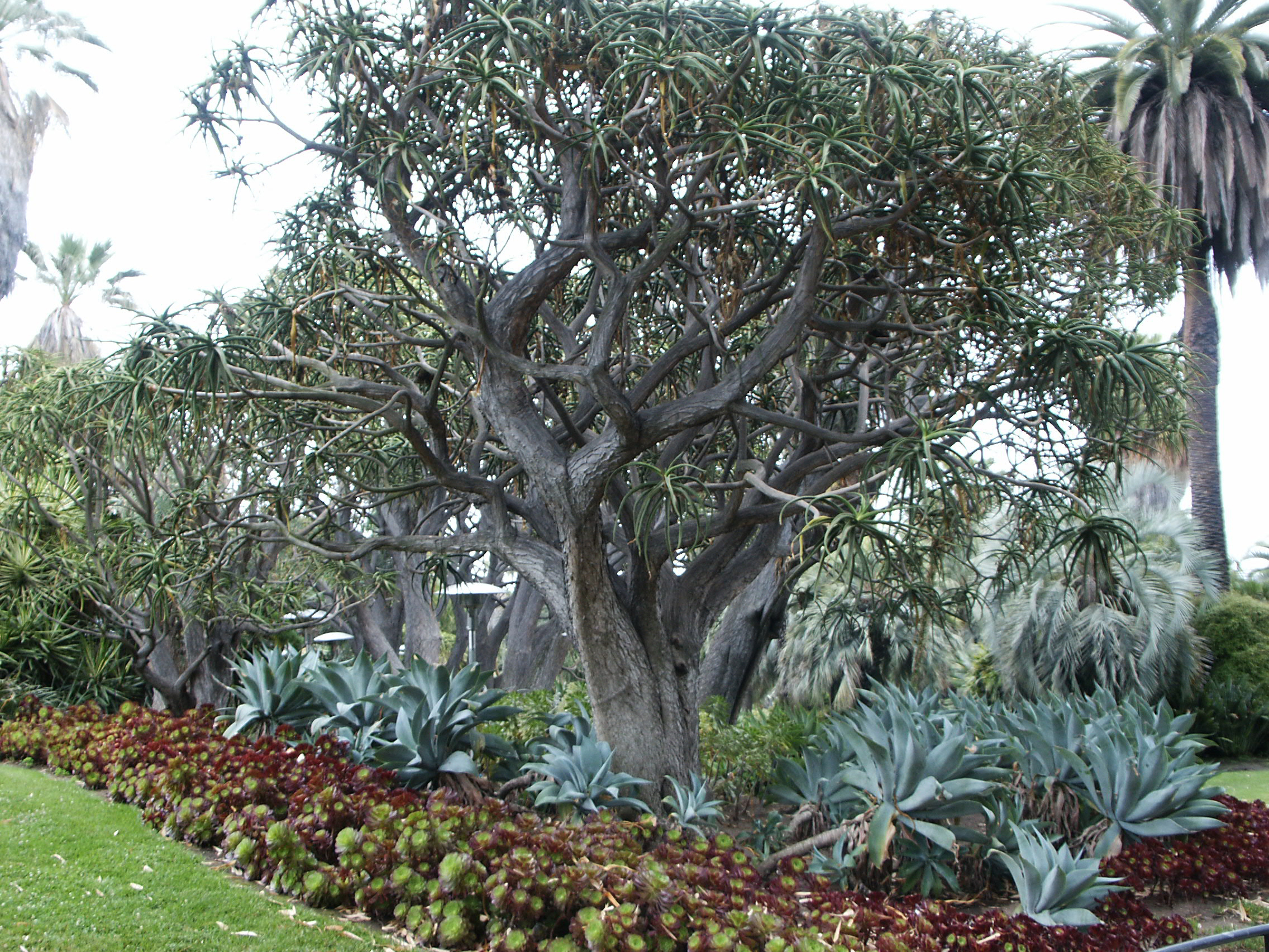 Aloe barberae (syn. A. bainseii) Aloe Tree, Huntington Library Entrance Garden, May 2009